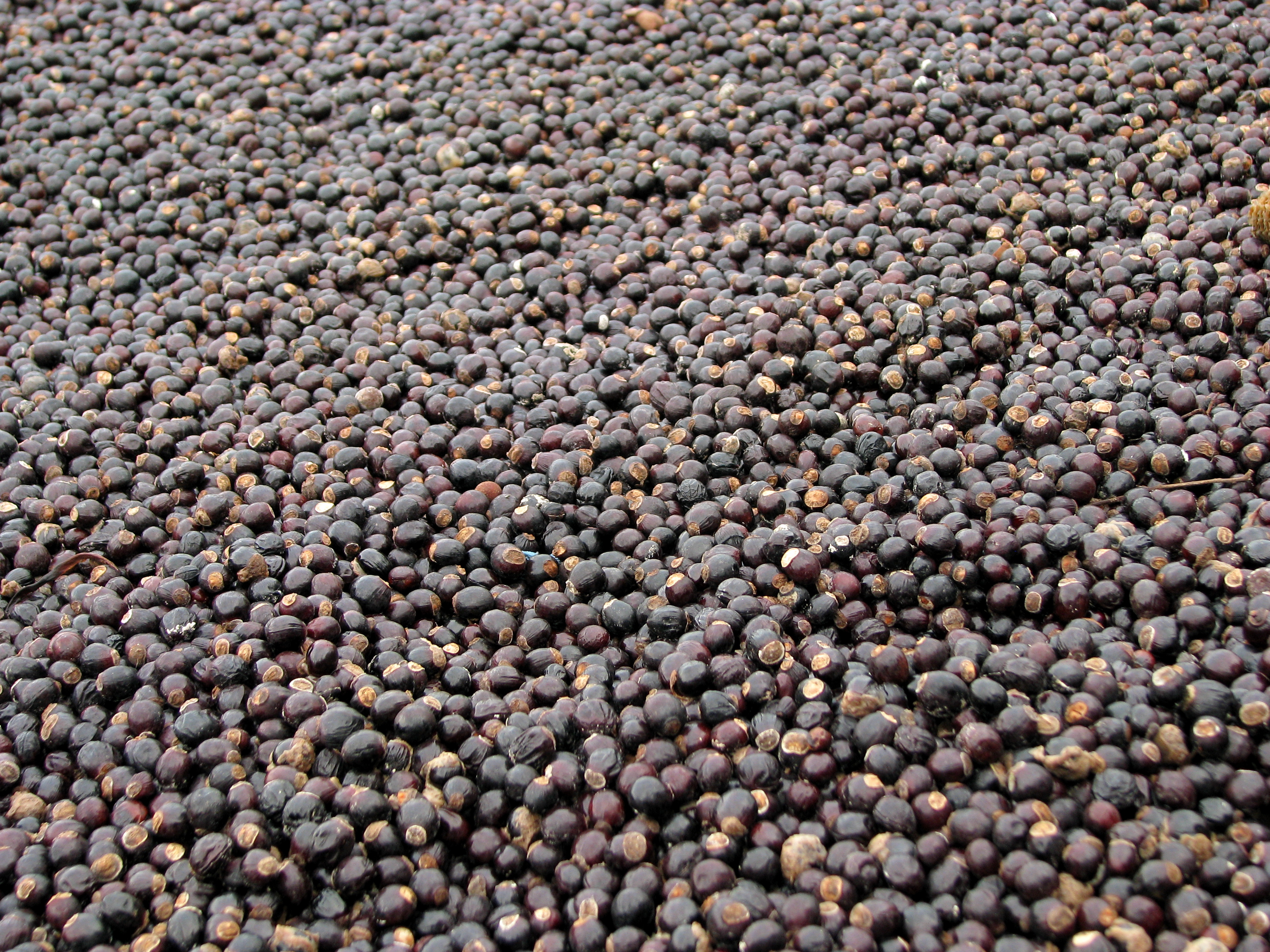 These were seeds of a sort, not coffee, but I don't remember what they were called or what they are used for...